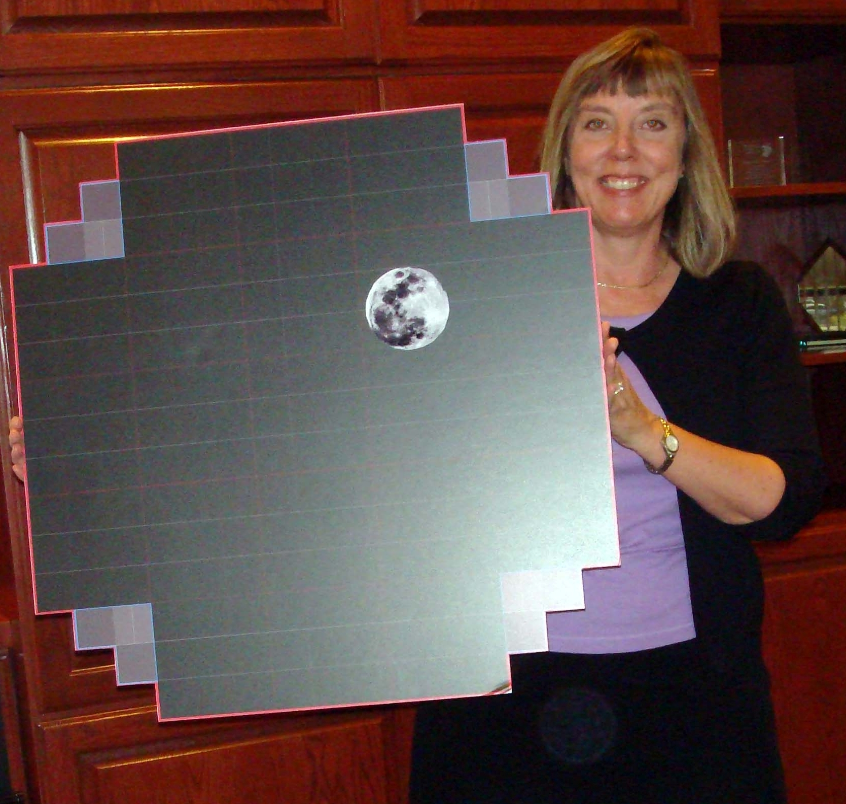 Suzanne Jacoby with the LSST focal plane array scale model. The array's diameter is 64 cm. This mosaic will provide over 3 gigapixels per image. The image of the moon (30 arcminutes) is present to show the scale of the field of view.